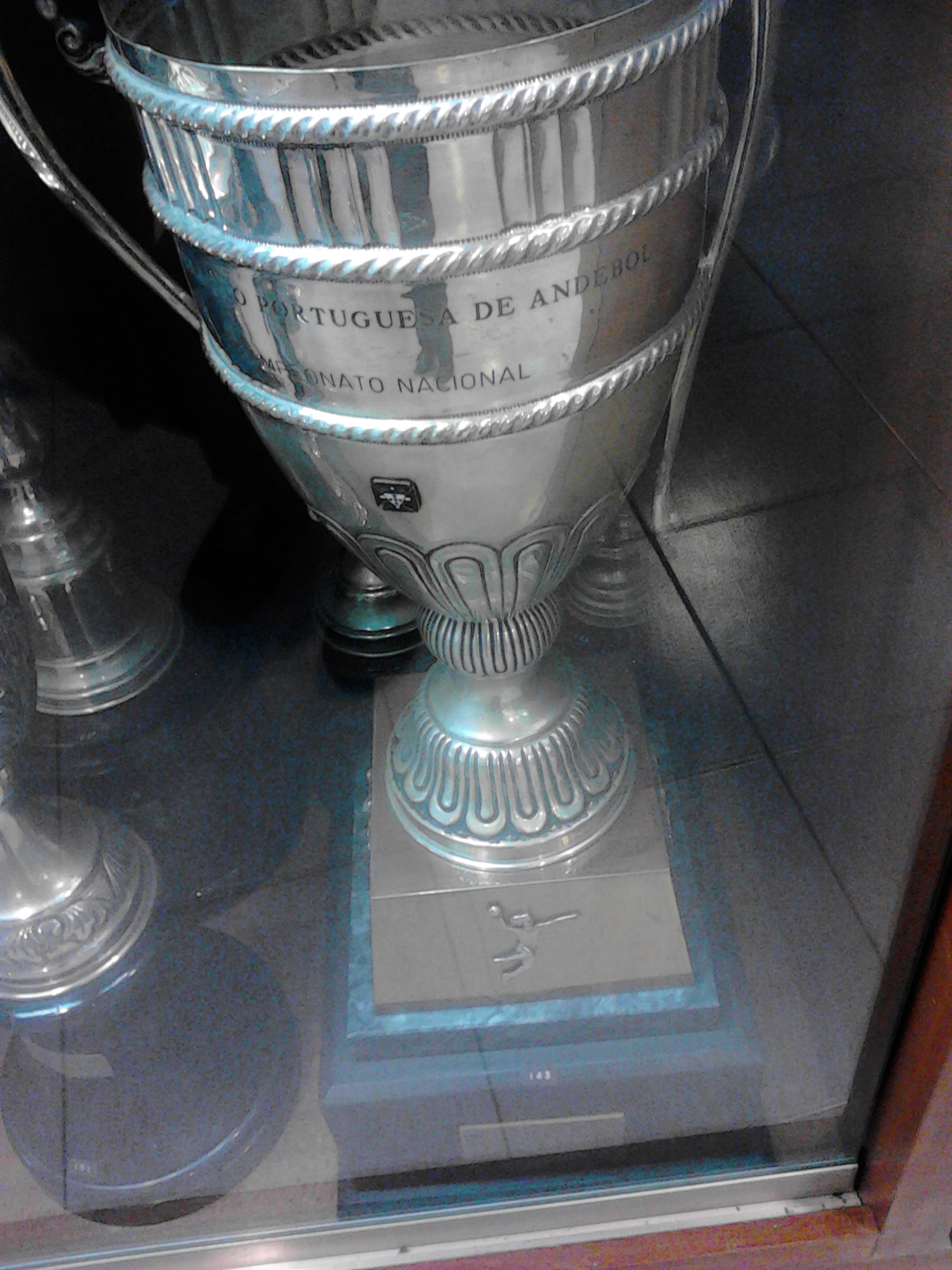 Can't tell the year but its definitely a league title trophy